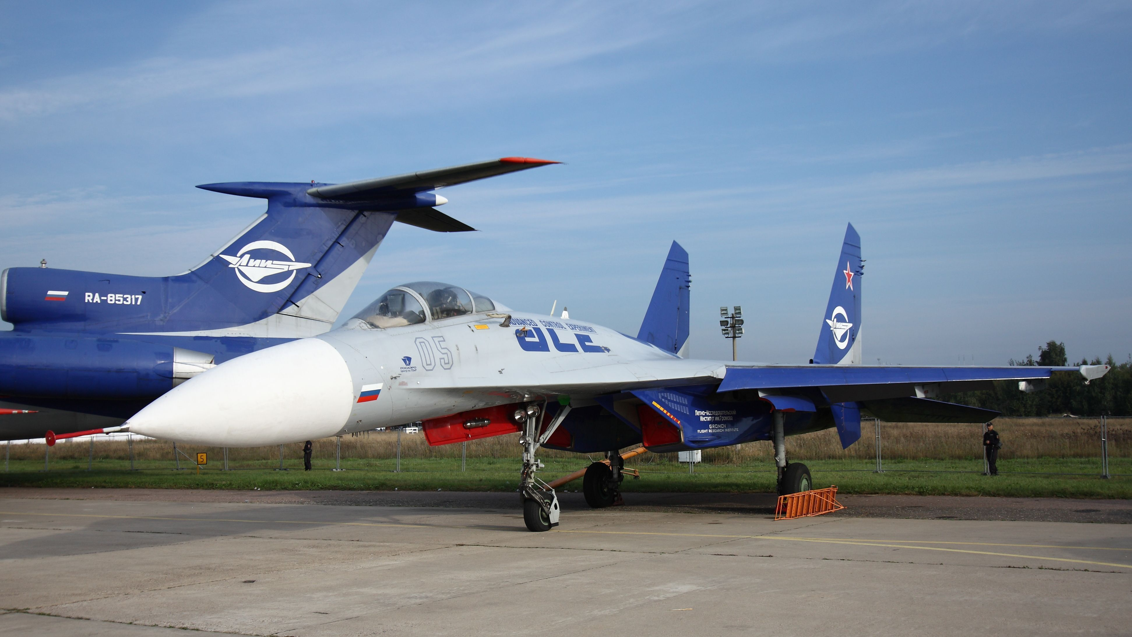 Flying laboratory Su-27LL Flanker (The international aerospace salon MAKS-2013)